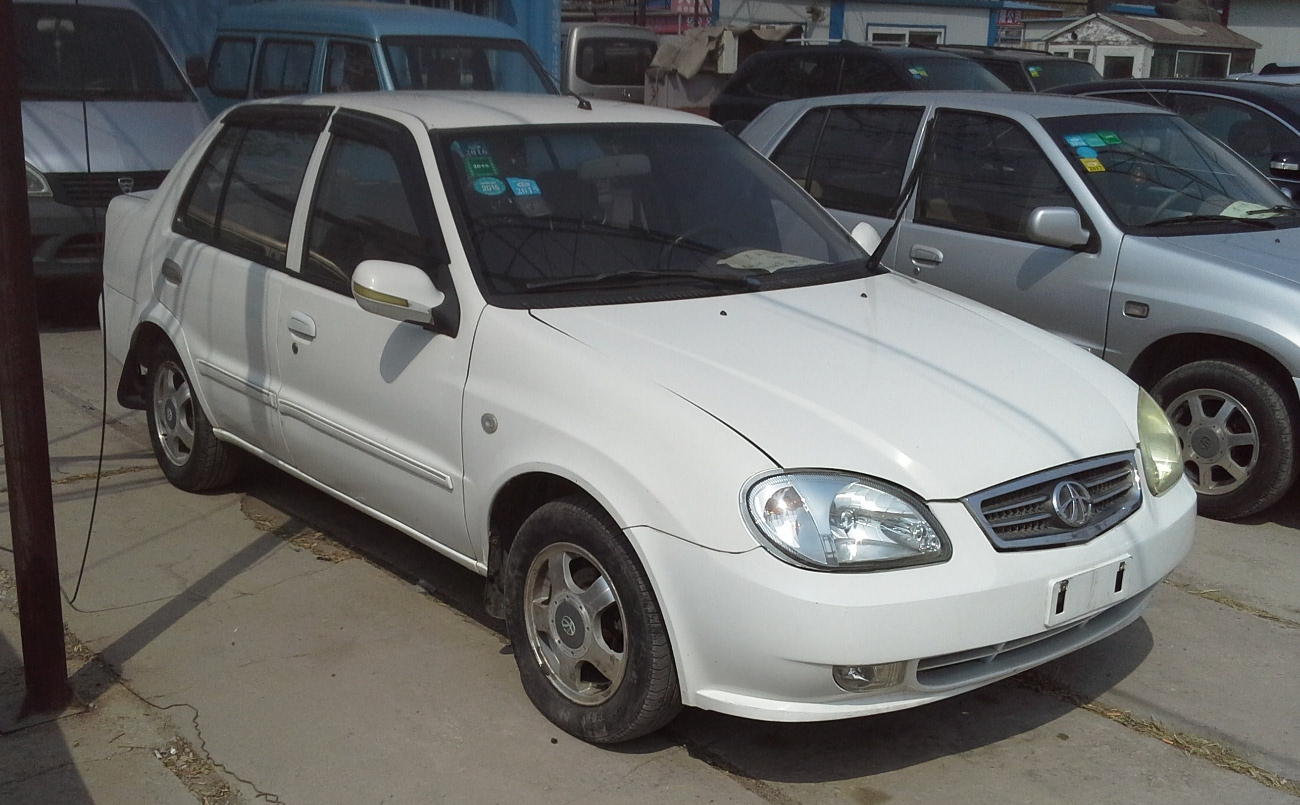 Tianjin Xiali N3 sedan photographed in Tianjin, China.